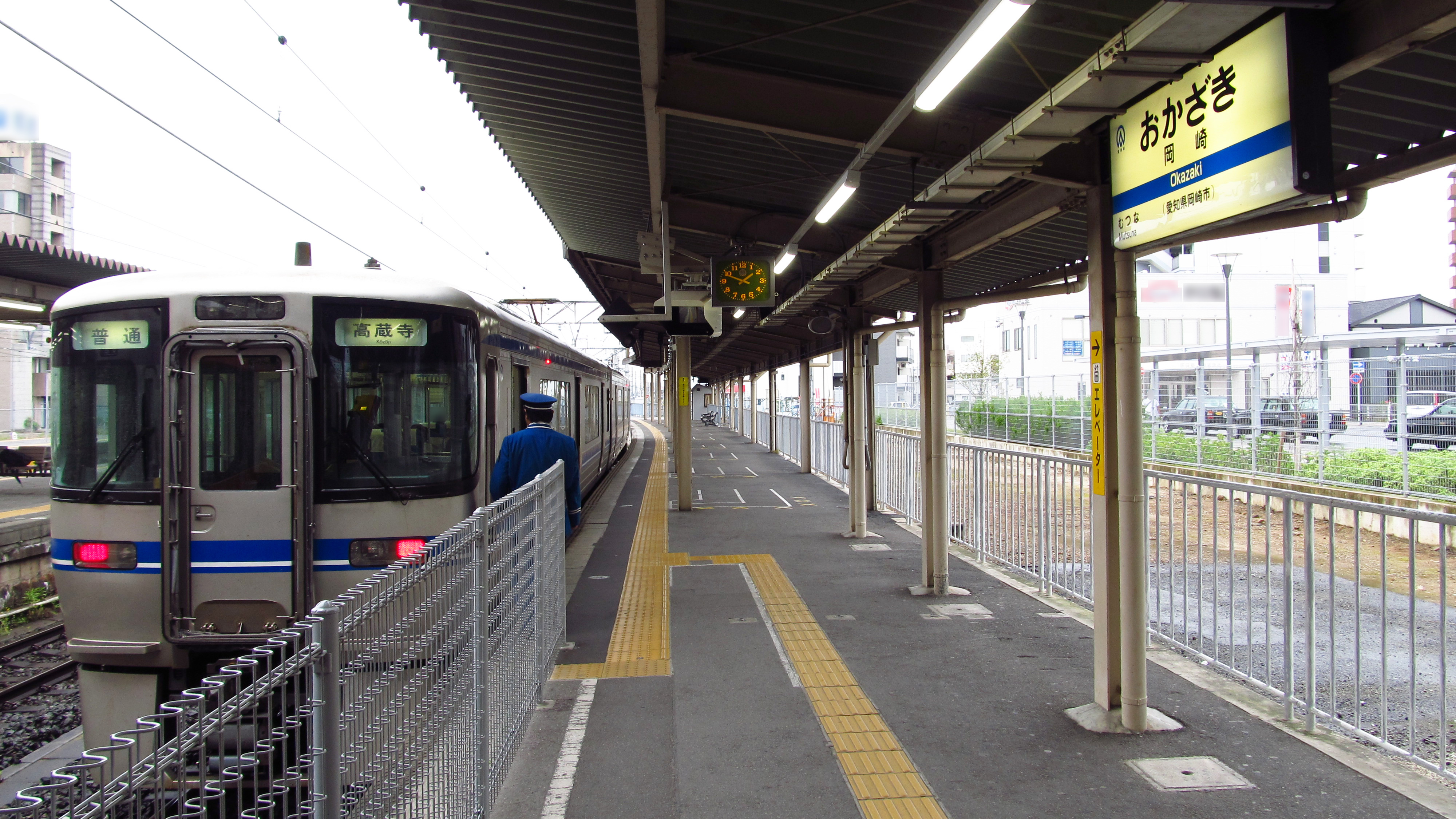 The platform at Okazaki Station on the Aichi Loop Line in the Okazaki city, Aichi prefecture, Japan